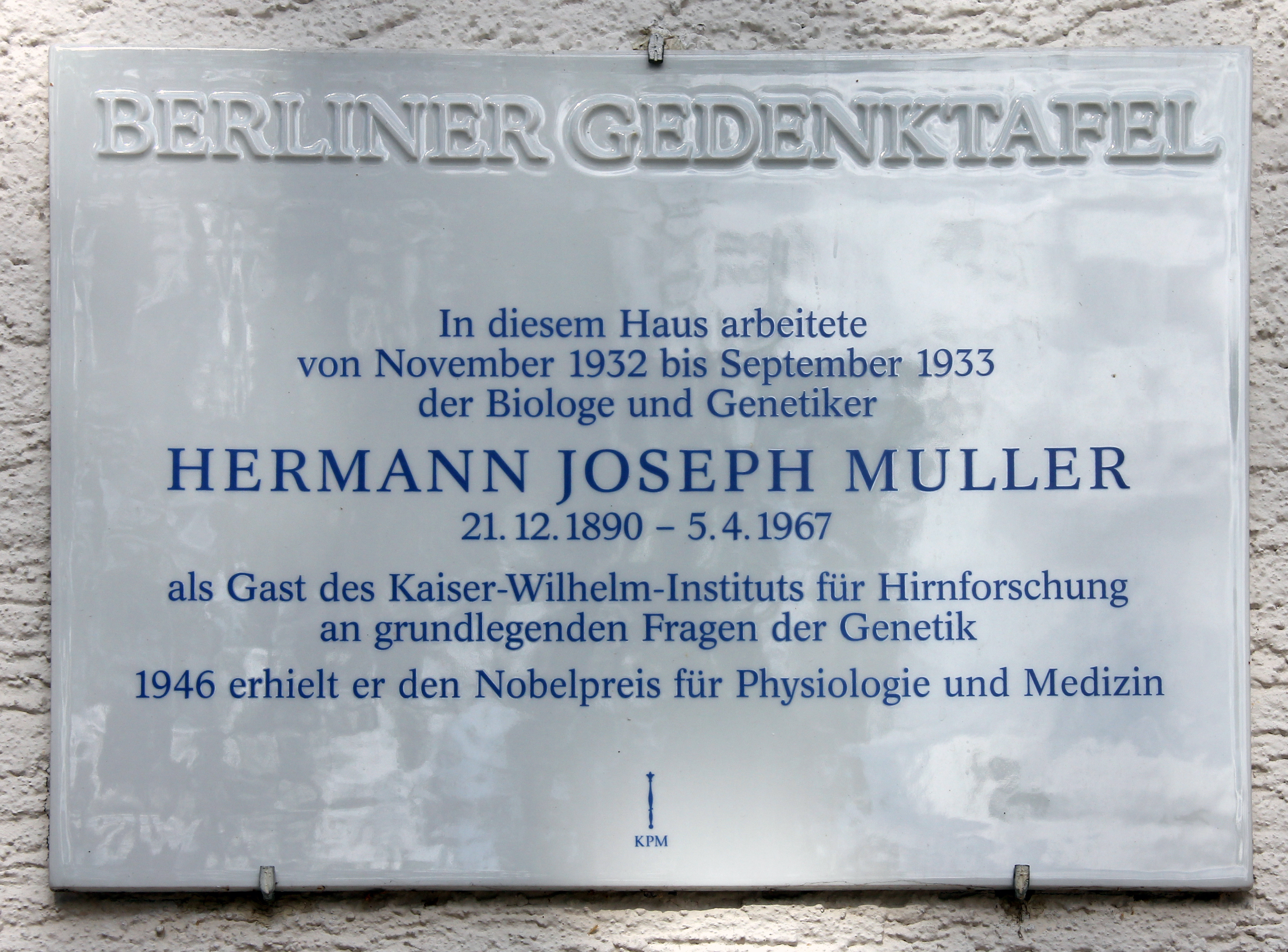 Berlin memorial plaque, Hermann Joseph Muller, Robert-Rössle-Straße 10, Berlin-Buch, Germany